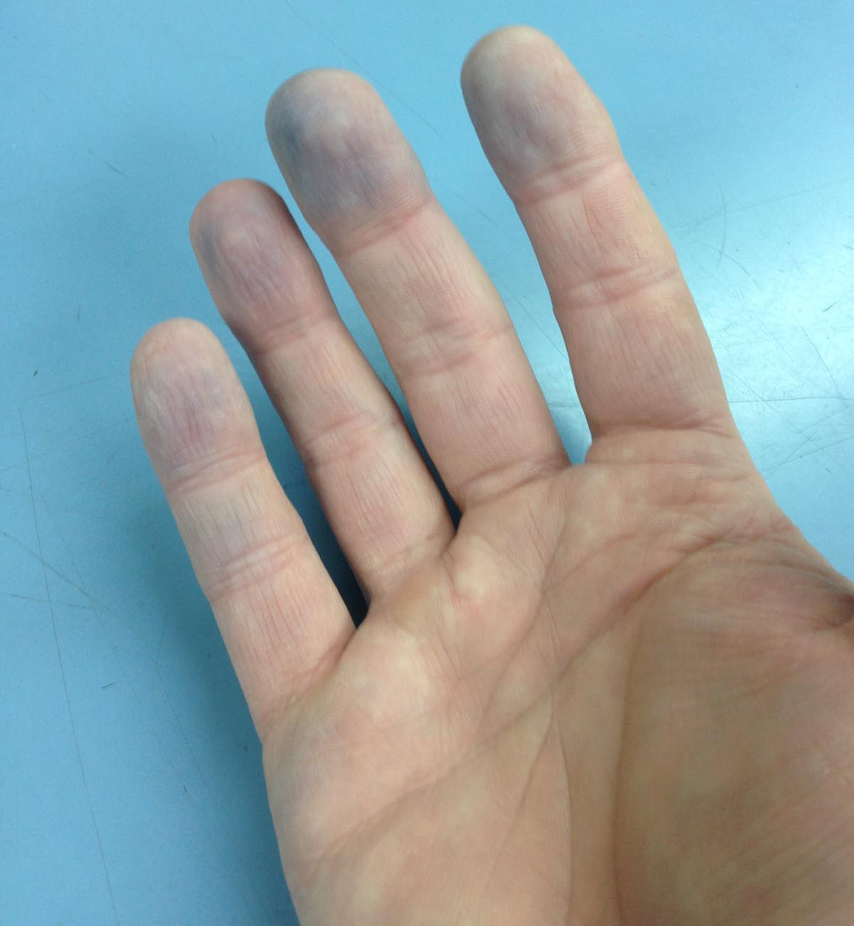 Blue finger tips from cyanosis affiliated with Raynaud's